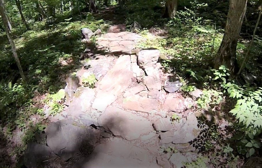 A rock garden on the Rocky Knob mountain bike trail (Boone, NC).